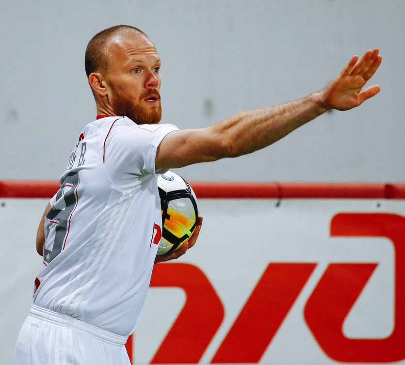 Vitaliy Denisov with FC Lokomotiv Moscow in a game against FC Ufa.